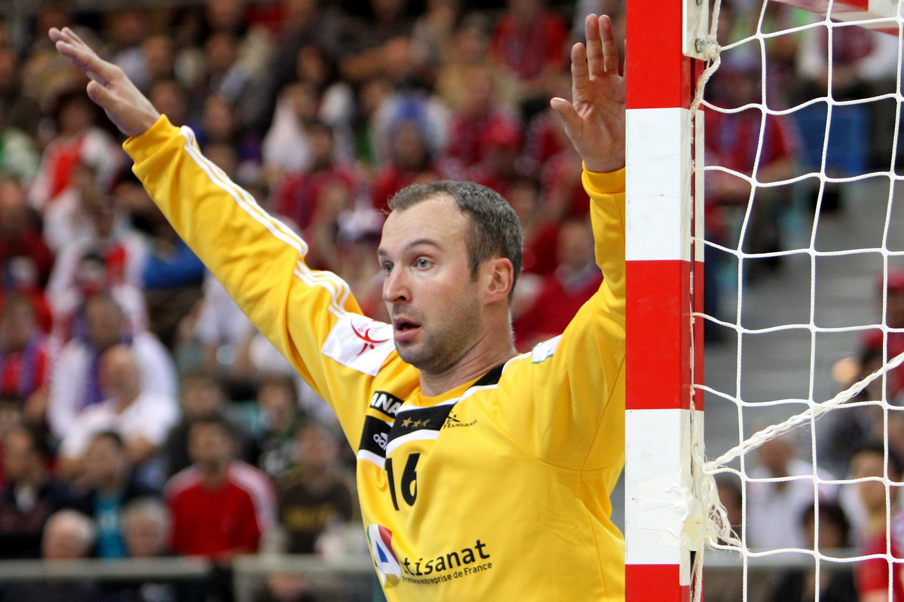 Thierry Omeyer (THW Kiel), France national handball team